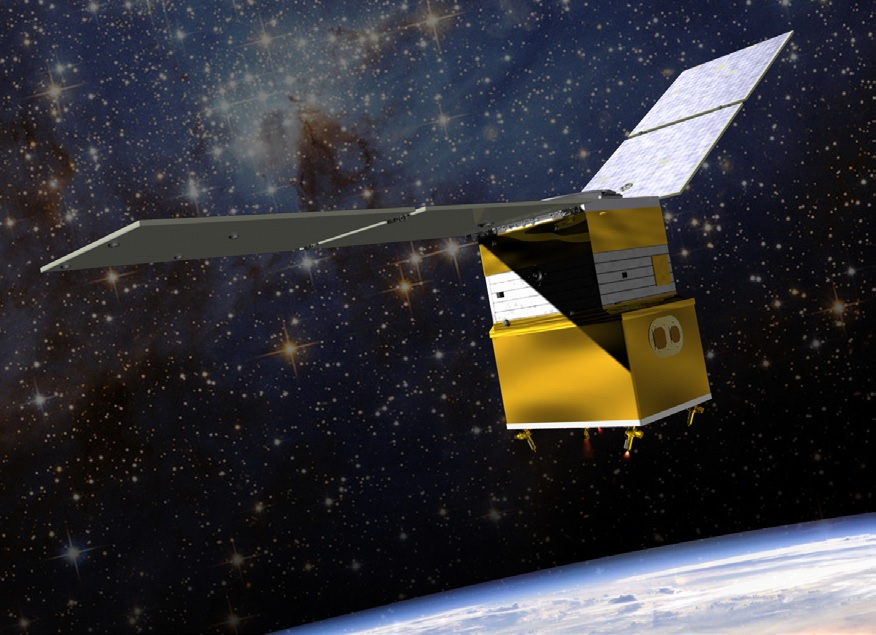 The Green Propellant Infusion Mission (GPIM) project will demonstrate the practical capabilities of a hydroxyl ammonium nitrate fuel/oxidizer blend, known as AF-M315E. This innovative, low-toxicity propellant, developed by the U.S. Air Force Research Laboratory, is a high-performance, "green" alternative to hydrazine. The researches claim it offers nearly 50% higher performance for a given propellant tank volume compared to a conventional hydrazine system. The Green Propellant Infusion Mission is scheduled to launch aboard a SpaceX Falcon Heavy rocket in late 2015.